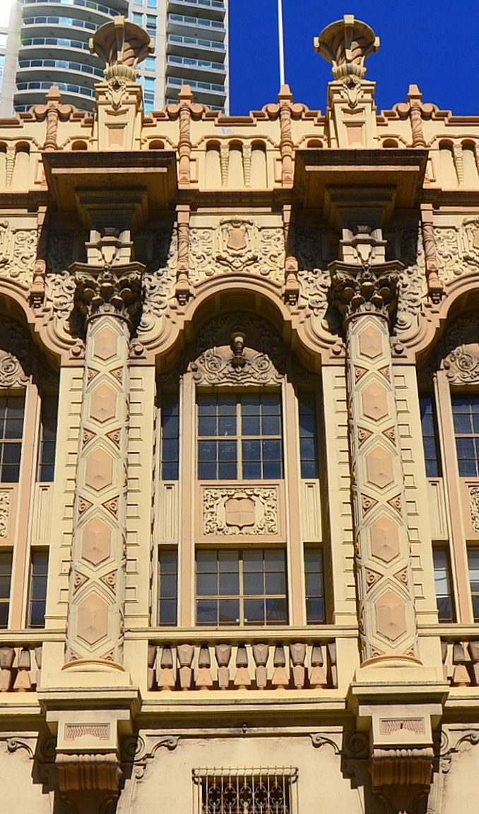 Plaza Cinema, Sydney